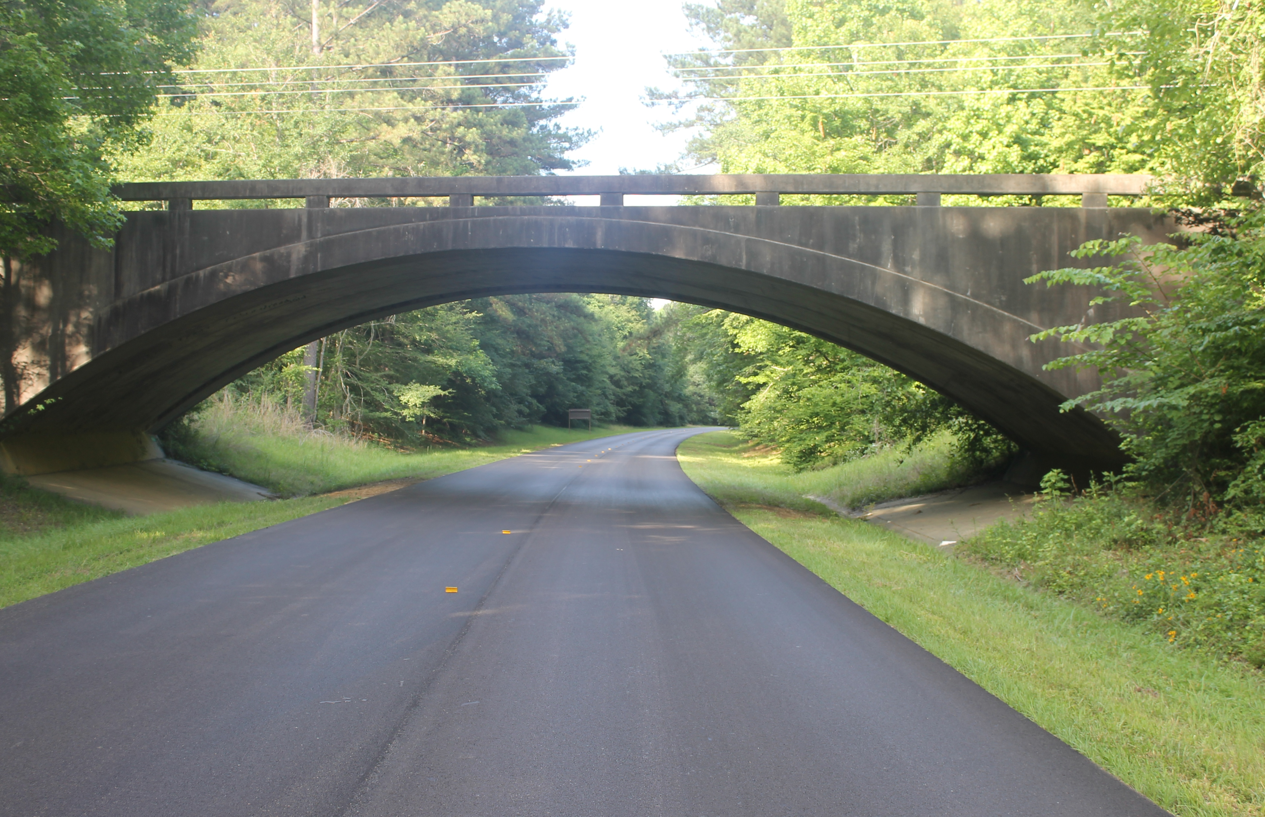 Overpass on Natchez Trace